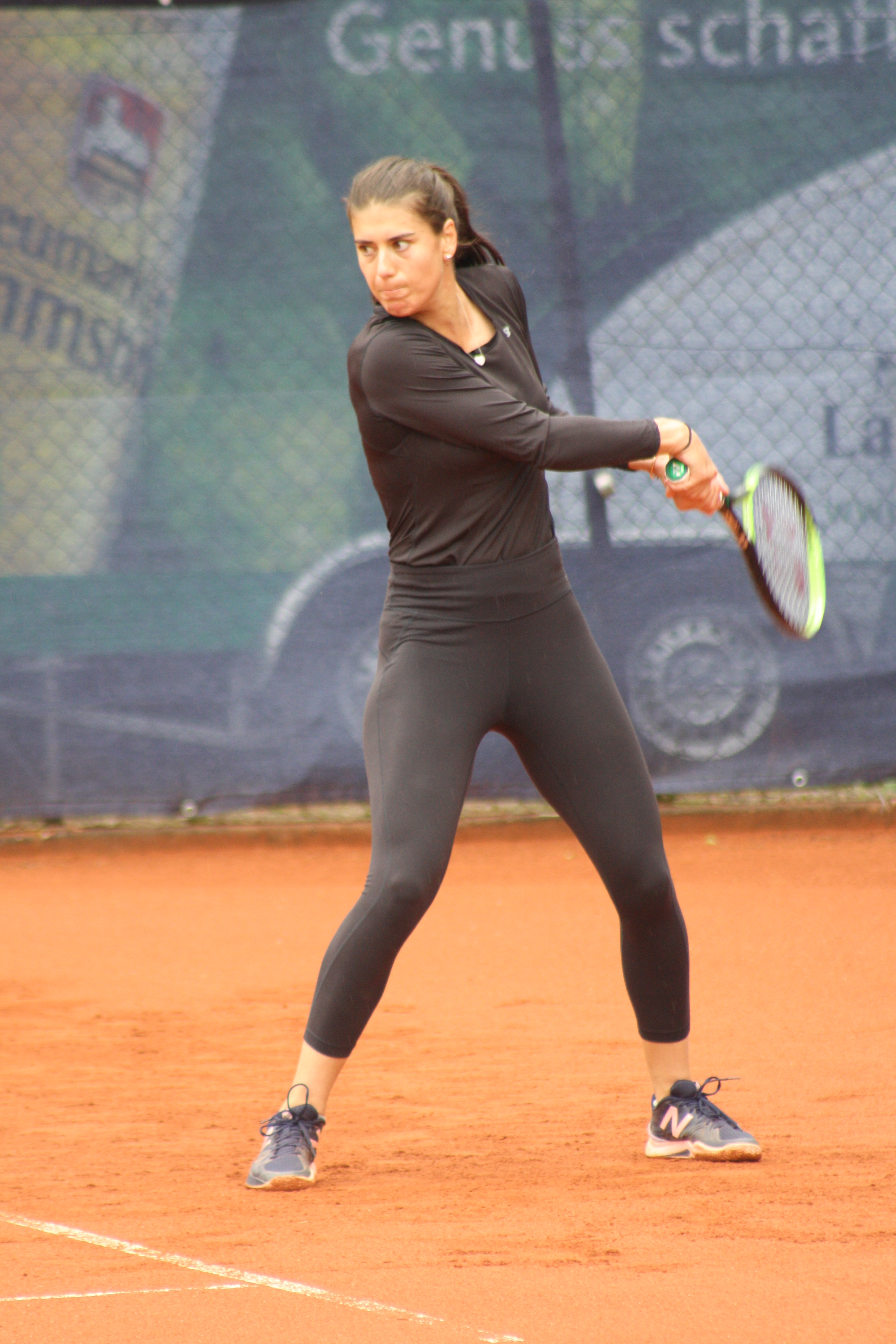 Sorana Cîrstea, May 2019